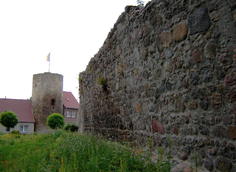 Town wall of Möckern (Saxony-Anhalt)